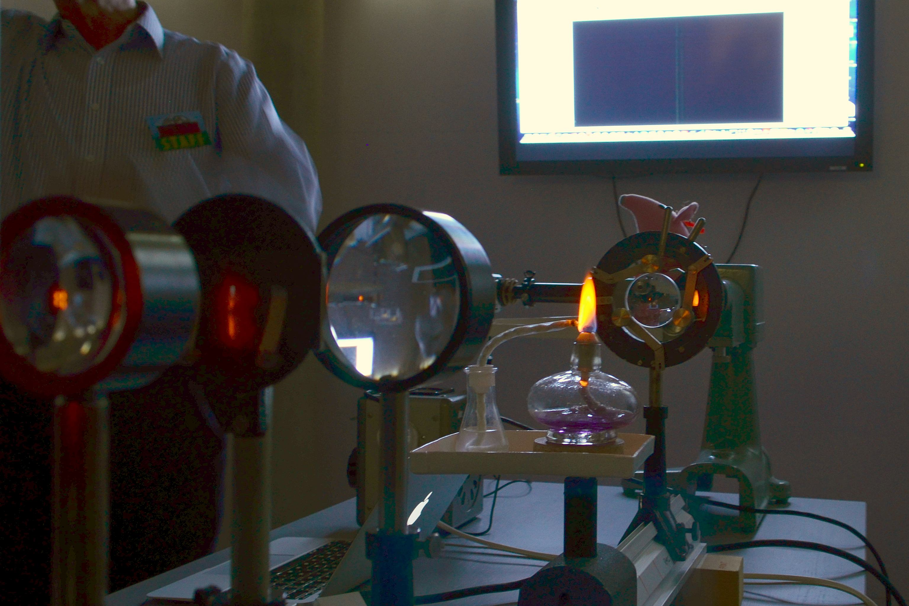 A demonstration of the 589 nm D2 (left) and 590 nm D1 (right) emission sodium D lines using a wick with salt water in a flame at the 2016 Cambridge Science Festival.